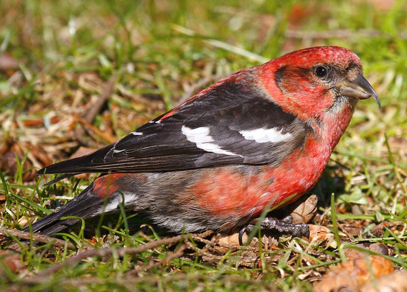 White-winged Crossbill (Loxia leucoptera) male. Mount Auburn Cemetery, Massachusetts.